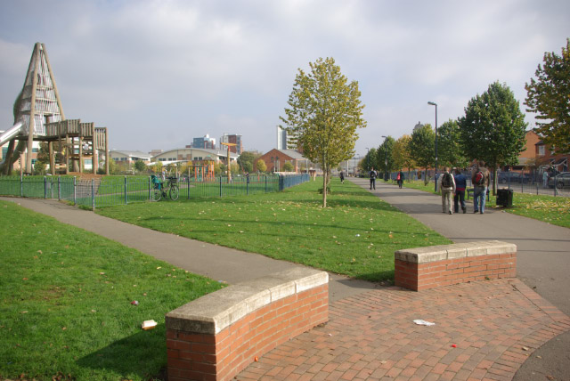 Bede Park New parkland area opened in 1999 on the site of a former scrapyard. The structure to the left is claimed to be one of the UK's largest children's slides.